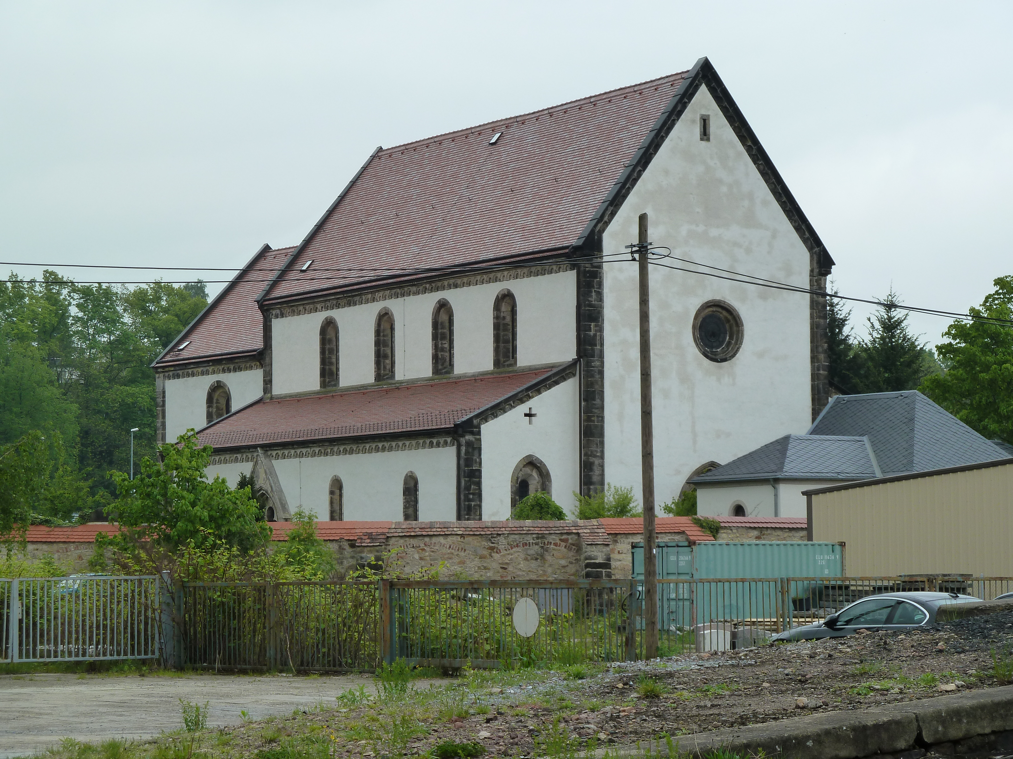 Basilica without transept in Dippoldiswalde, Saxony, Germany 1230/1240